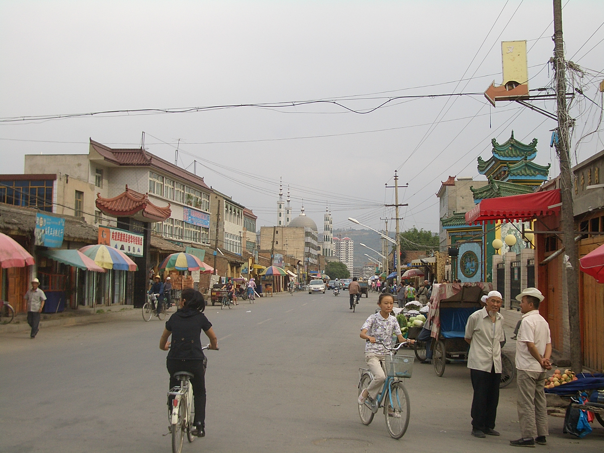 Xin Xi Lu (New Western Street) in Linxia City, west of downtown. This is probably the heart of the old Muslim neighborhood, where the Hui people had to reside after they were prohibited to live within the city wall in 1873. There are 4 large mosques - Lao Hua, Xin Hua, Tie Jia, and Qianheyan - in that street.